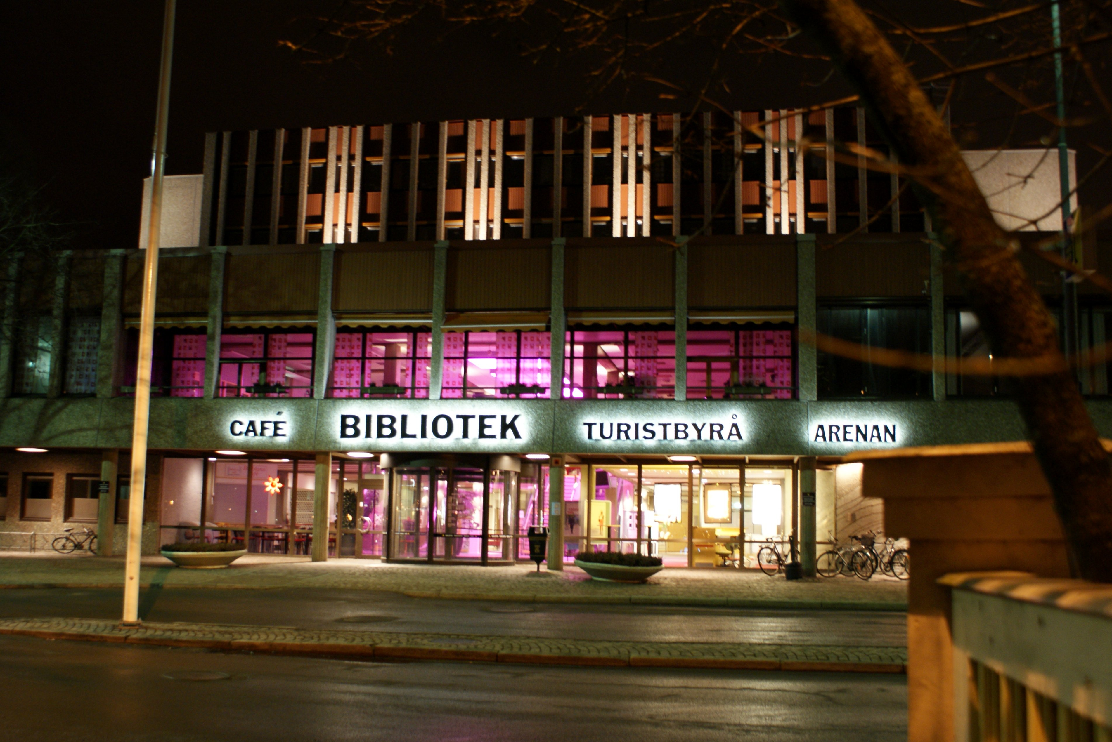 The city library in Karlstad, Sweden.